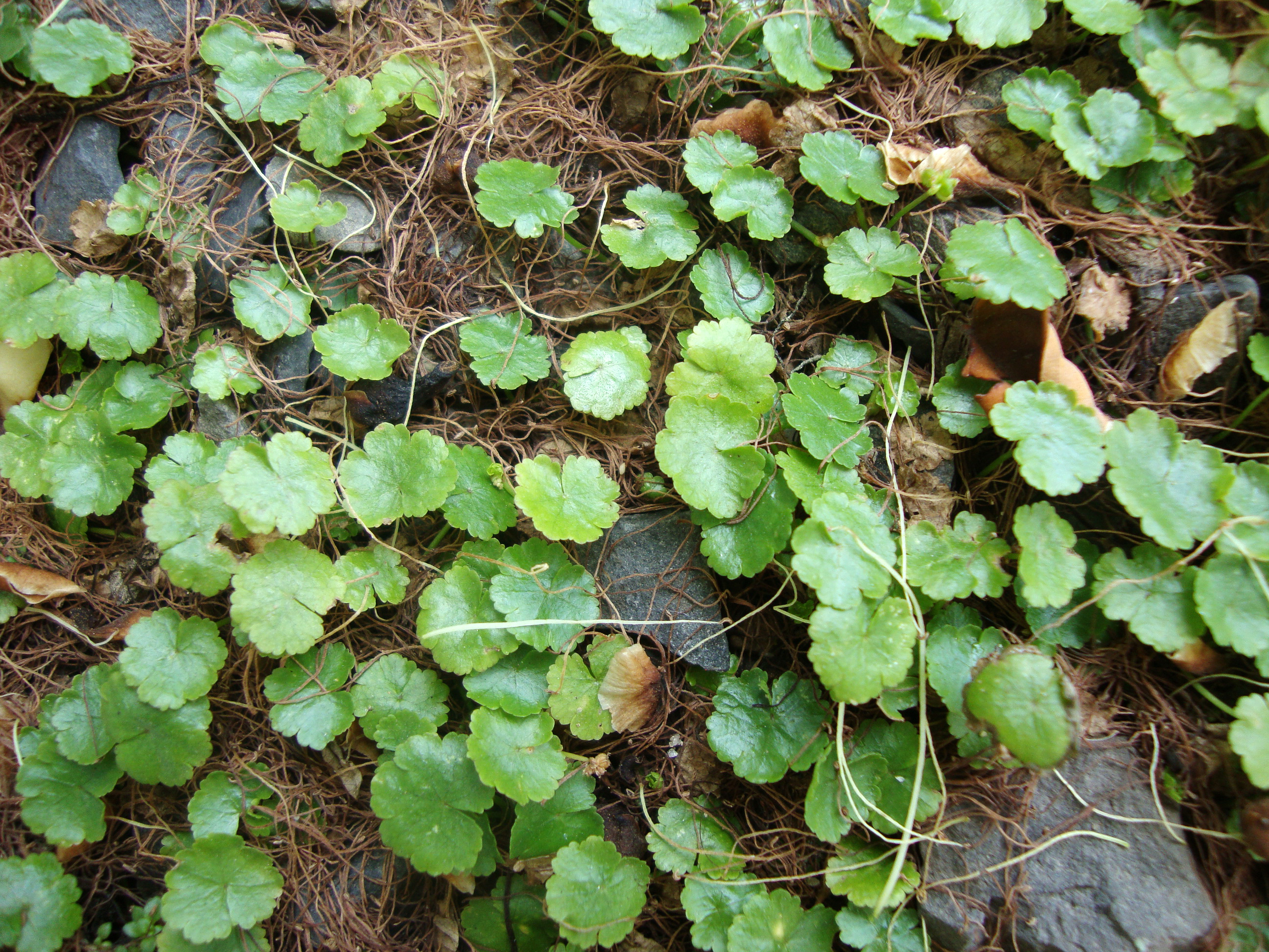 Hydrocotyle sibthorpioides Lam., 1789